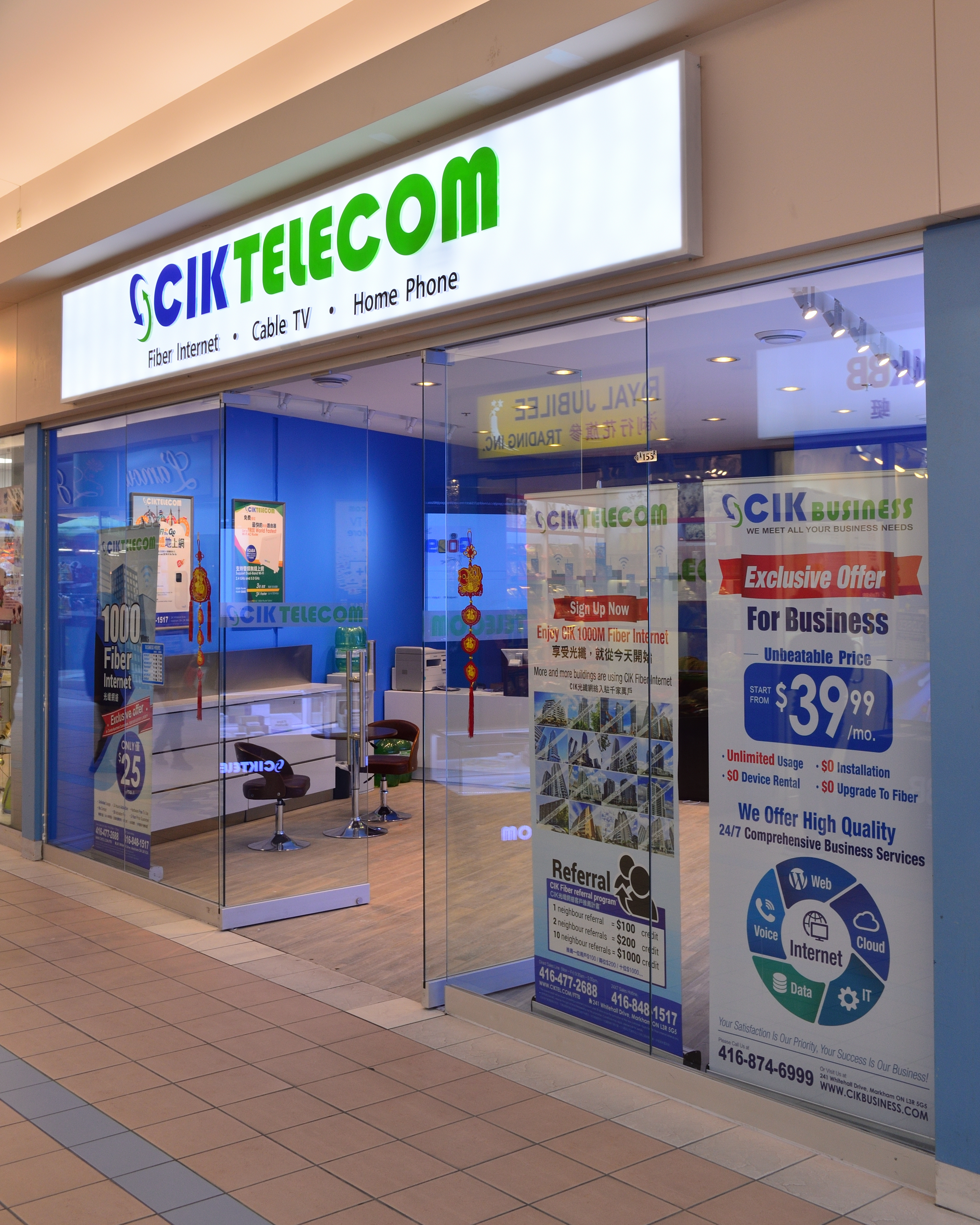 CIK Telecom First Markham Place